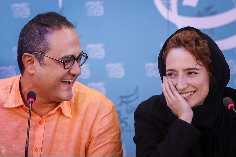 Media conference of Negar (film)